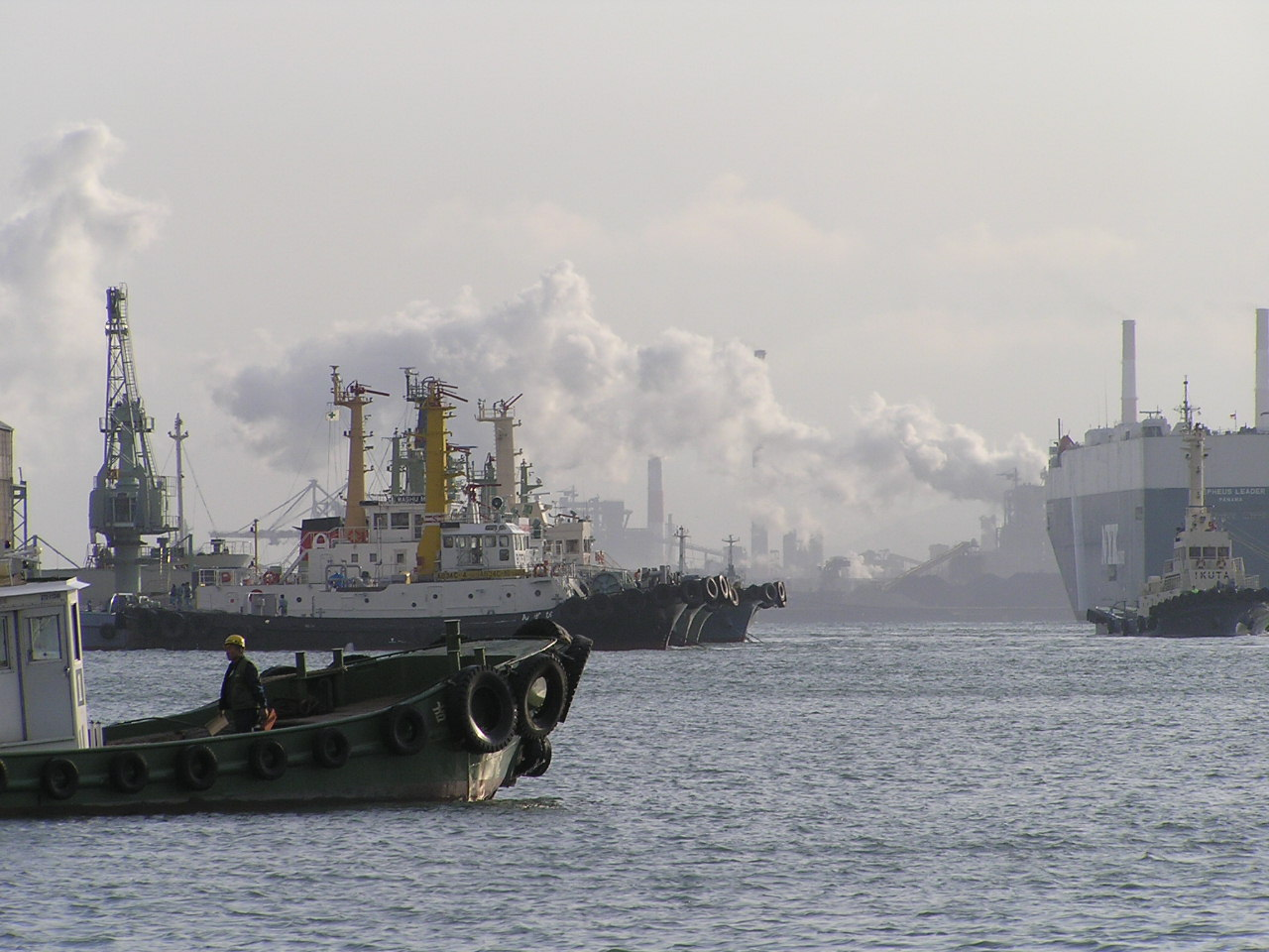 Appearance of Mizushima port